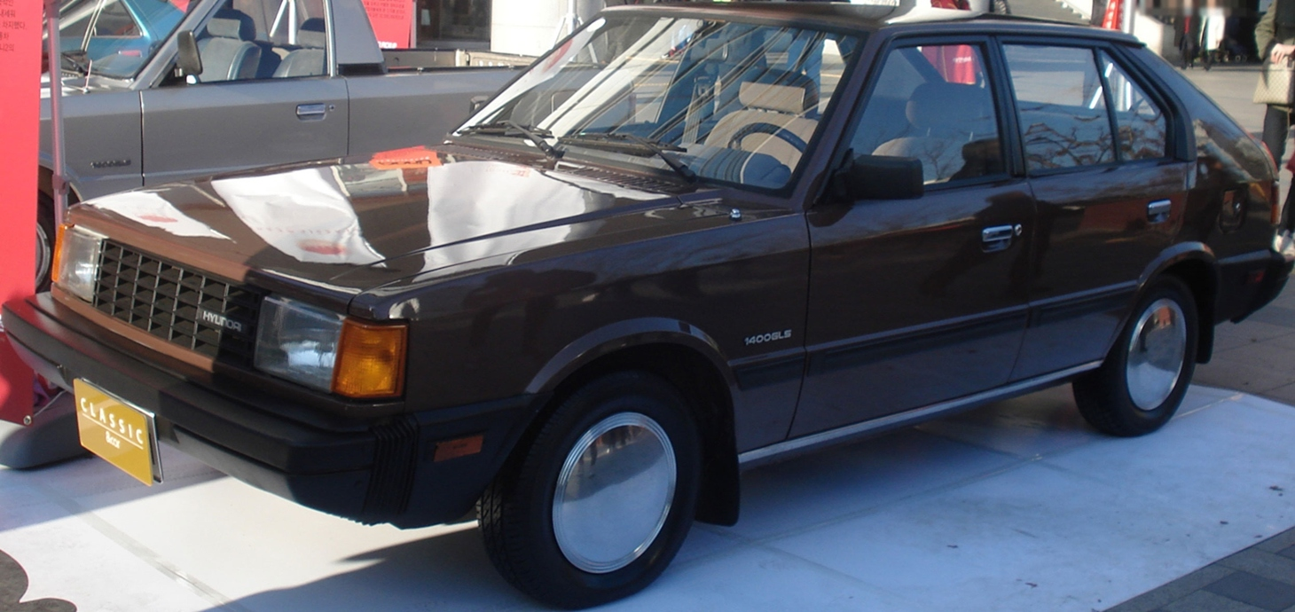 Hyundai Pony Ⅱ